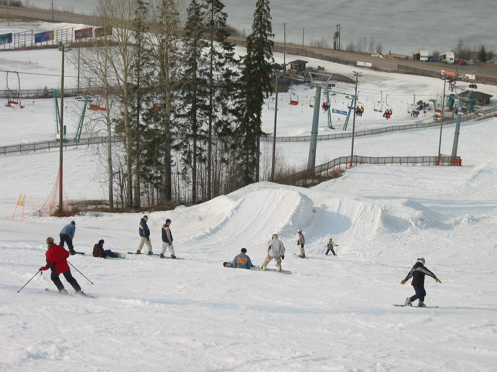 Himos ski resort in Jämsä, Finland